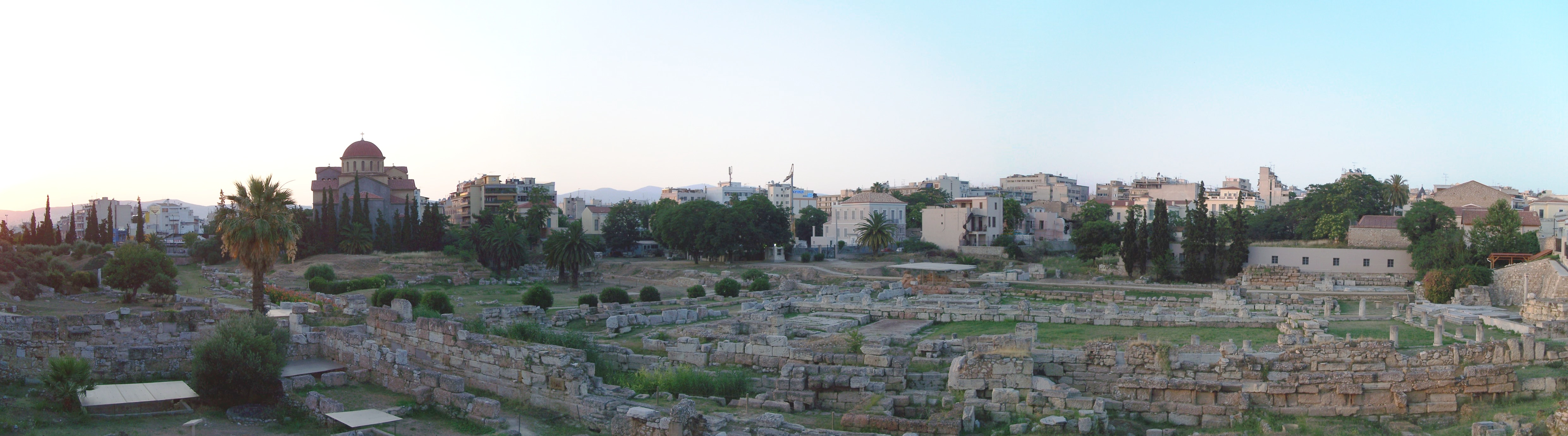 The archaeological site of Kerameikos in Athens, panorama created from SE view.